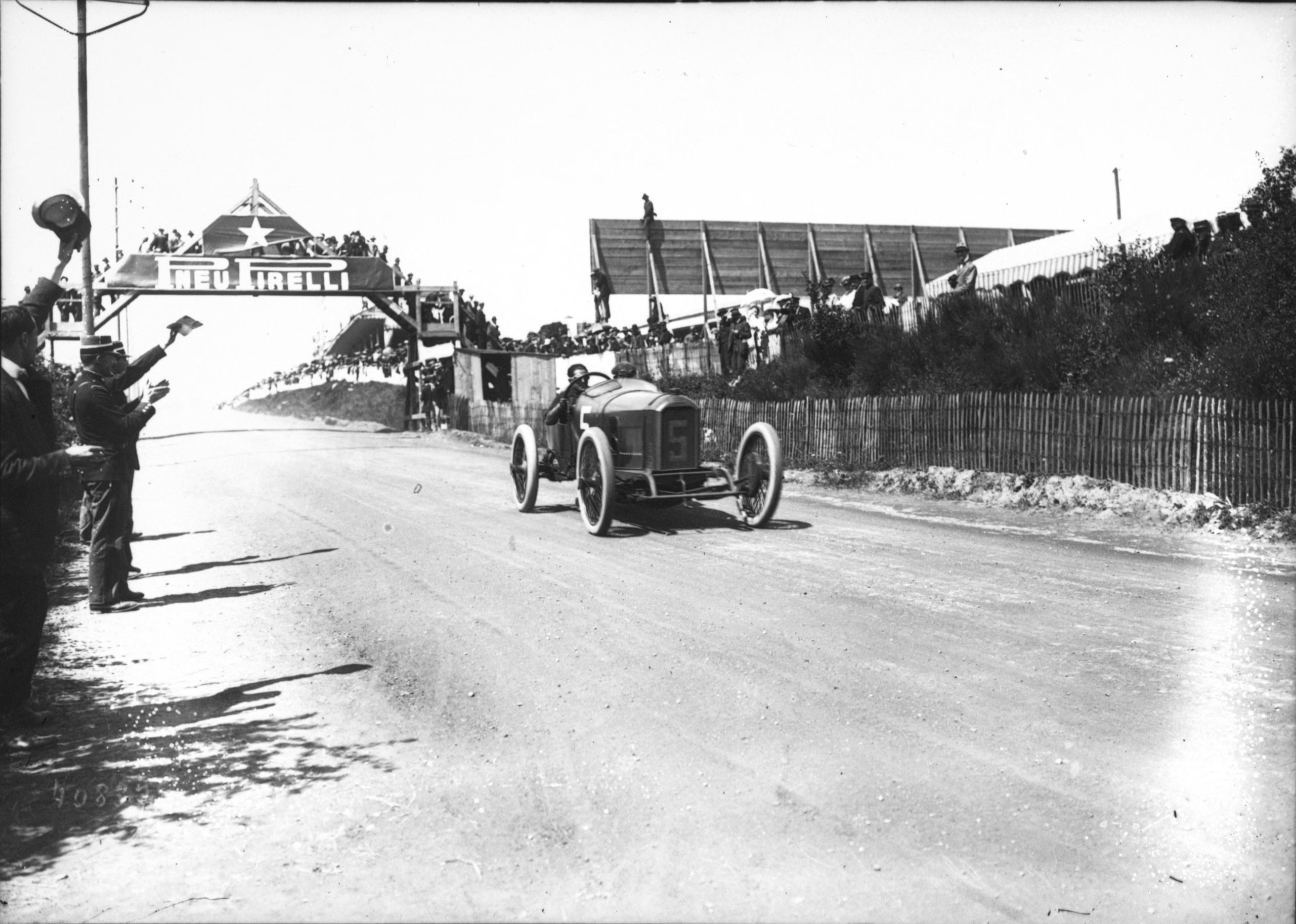 Georges Boillot at the 1914 French Grand Prix